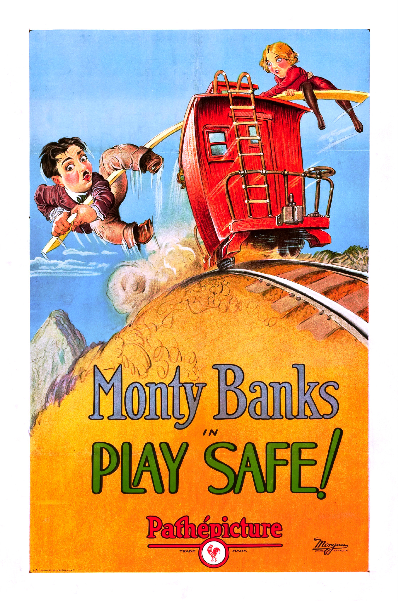 Poster for the 1927 film Play Safe. The item has no copyright markings on it as can be seen in the links above. At bottom left is I-A Country of Origin USA and at bottom right the logo of the MOrgan Litho Company, Cleveland--they printed the poster.